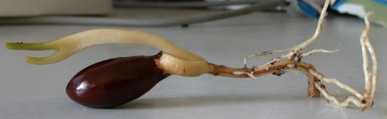 Lychee (Litchi chinensis) Photographer's note: "The fresh seed germinated in about 2 weeks. It has an agressive root structure."